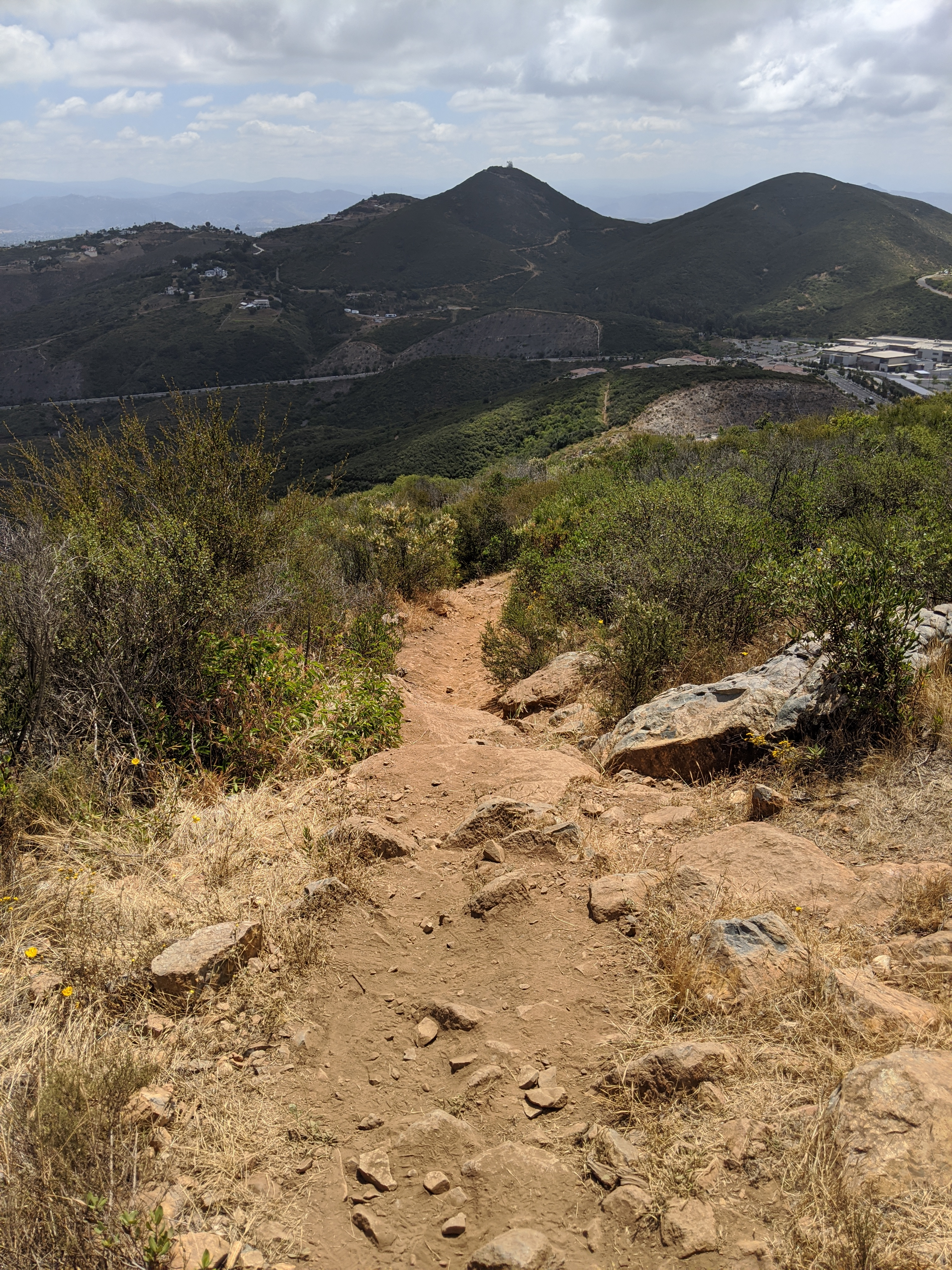 Photo of the trail on the East side of Double Peak mountain